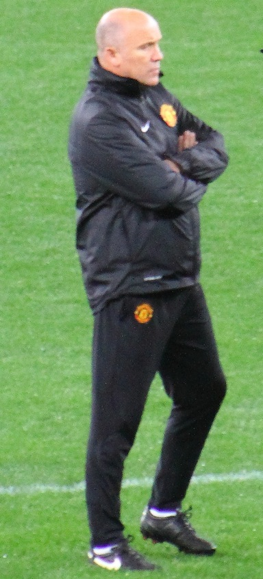 Manchester United coach Mike Phelan